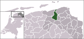 Locator map of Dutch municipalities in Groningen (LocatieWinsum.png)